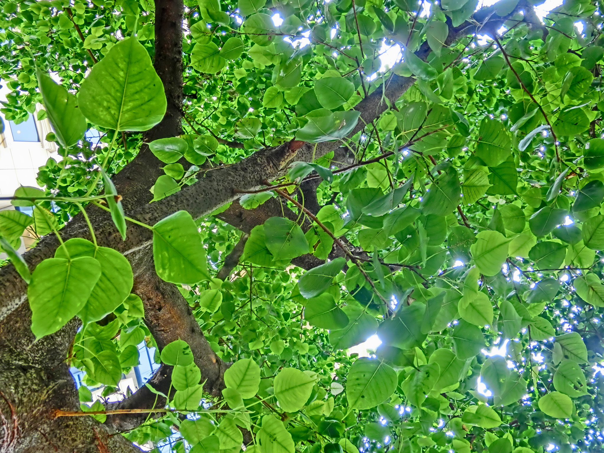 心葉榕 (又名: 假菩提樹), Tree in Hong Kong Central Library, Causeway Road, Causeway Bay, Hong Kong